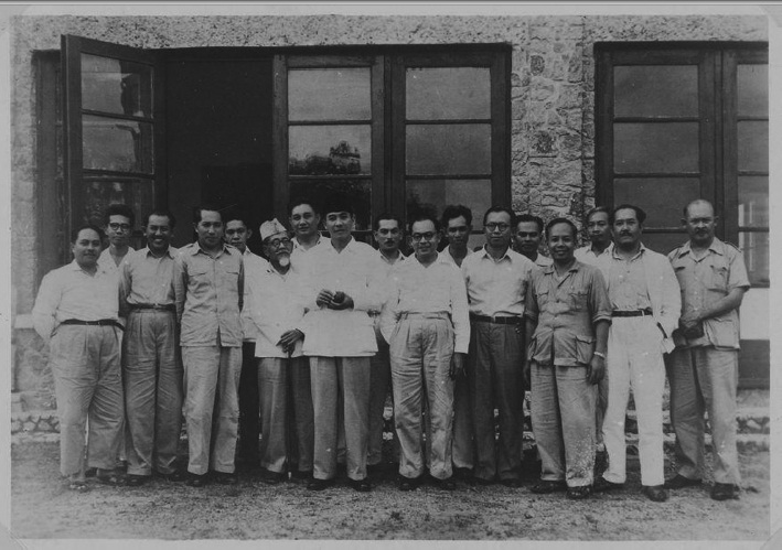 Republican leaders in front of Hotel Prodeo, Bangka, early 1949 where they were interned by the Dutch colonial government after the Second politionele actie. From left to right: 1. Abdoel Gafar Pringgodigdo, 2. Mohammed Natsir, 3. Mohammad Roem, 4. Herling Laoh, 5. Abdul Halim, 6. Hadji Agoes Salim, 7. Darma Setiawan, 8. Soekarno, 9. Asmaoen, 10. Mohammad Hatta, 11. Johannes Leimena, 12. Djoeanda Kartawidjaja, 13. Saoebari, 14. Koesnan, 15. Assaat Datuk Mudo, 16. Ali Sastroamidjojo, 17. Soemarto